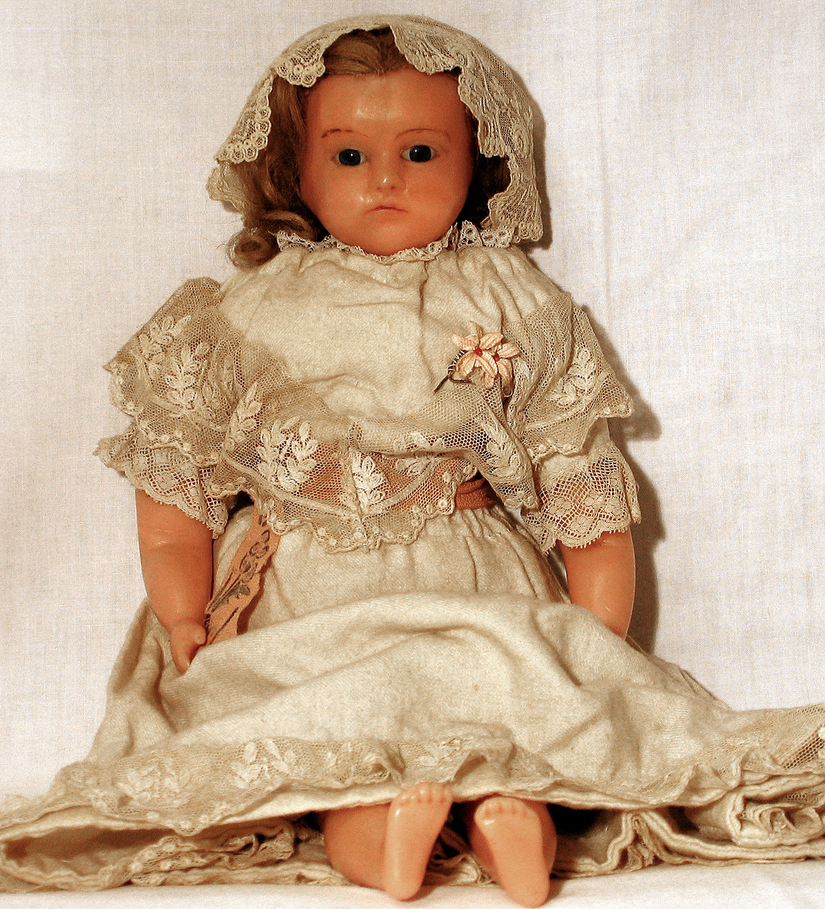 Wax doll from the doll manufacture Pierotti (head with shoulder, mohair hairs, arms and legs) and a stamp on womens torso F. Aldis ... Belgrave Manor", London, about 1880 ...